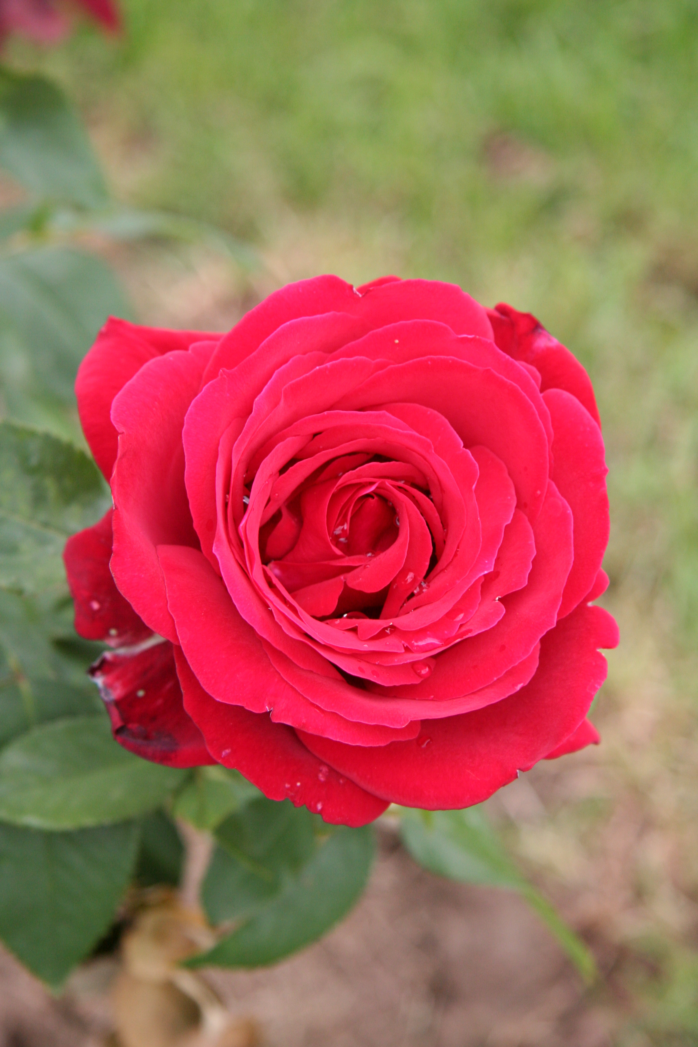 Petit Marquis rose - Bagatelle Rose Garden (Paris, France).